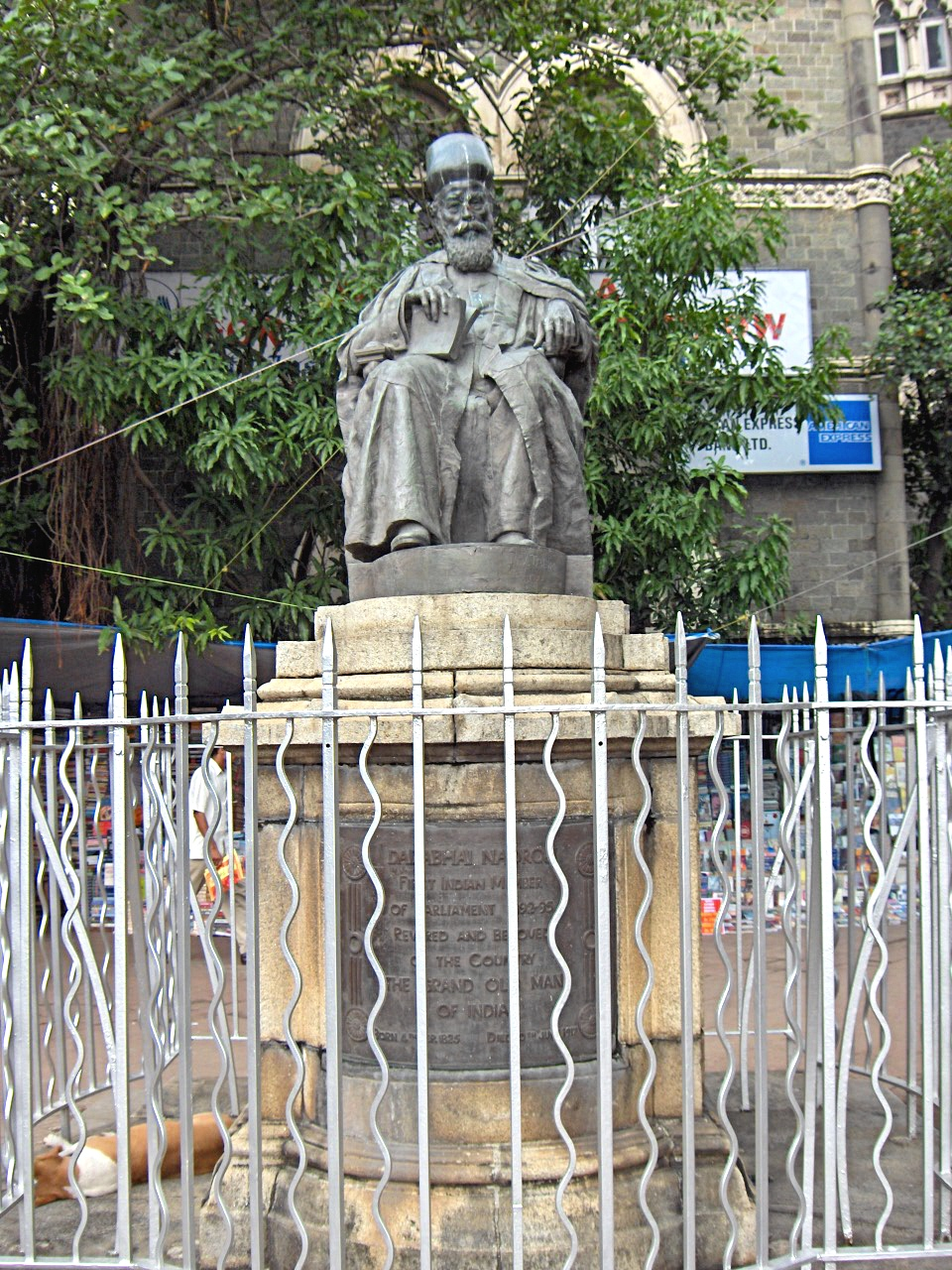 Statue of Dadabhai Navroji near Flora Fountain, Bombay Taken my me, Nichalp on 1-Oct-2005.